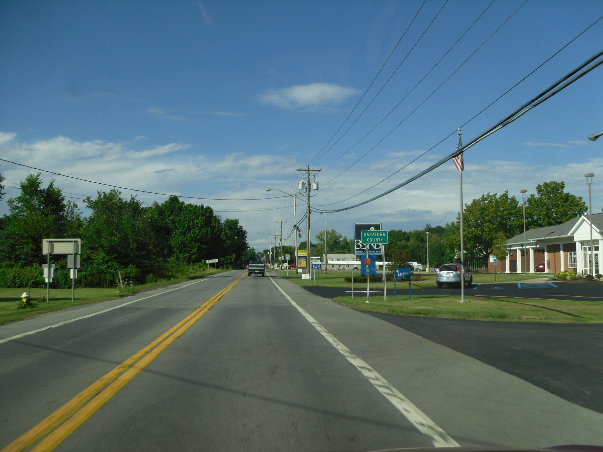 New York State Route 50 northbound at the Saratoga County line in Glenville.